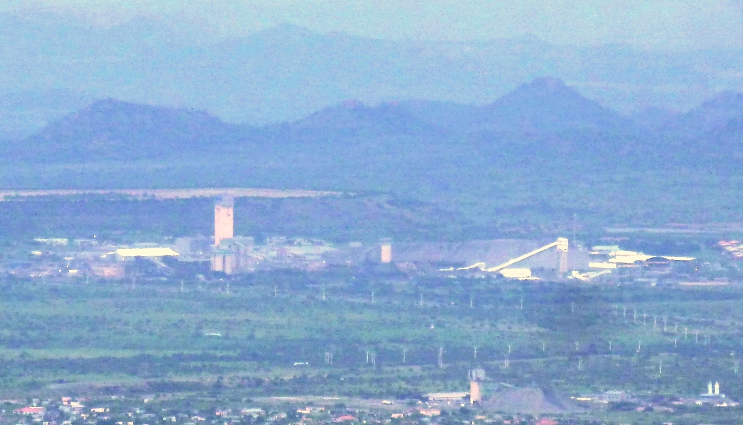 The Eastern Platinum Concentrator (EPC) of Lonmin platinum mine east of Marikana, North West, South Africa, as seen from Dewetsnek on the Magaliesberg. The townships of Modderspruit and Bapong are visible in the foreground.